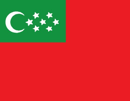 The banner of_free_North_Caucasus